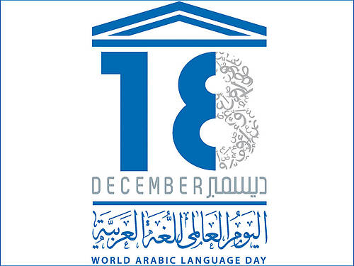 Arabic Language Day slogan